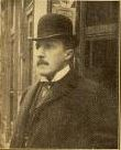 Carl Parrot